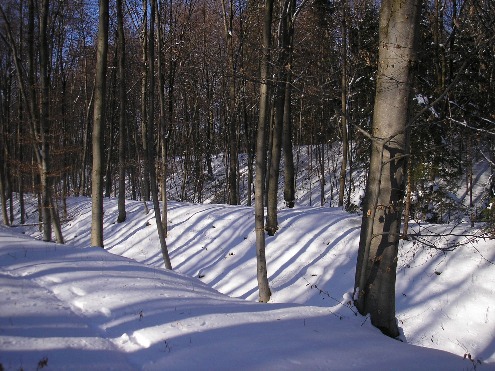 Early Middle Ages hill fort "Birg" near Hohenschäftlarn (Baierbrunn, Landkreis München, Upper Bavaria, Germany). The central earthworks, looking west